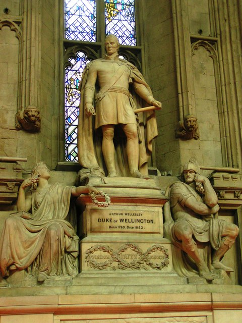 Statue of Duke of Wellington in the Great Hall of the Guildhall